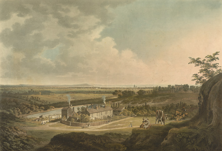 "A View on Hampstead Heath, looking towards London," coloured engraving, by the British artist Francis Jukes Sarjent. Courtesy of the British Library, London.